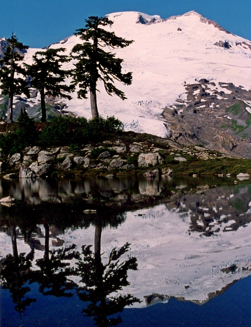 Mount Baker reflected in a tarn along the Park Butte Trail in September 1991